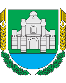 Coat of arms of Lubeshivskyj district